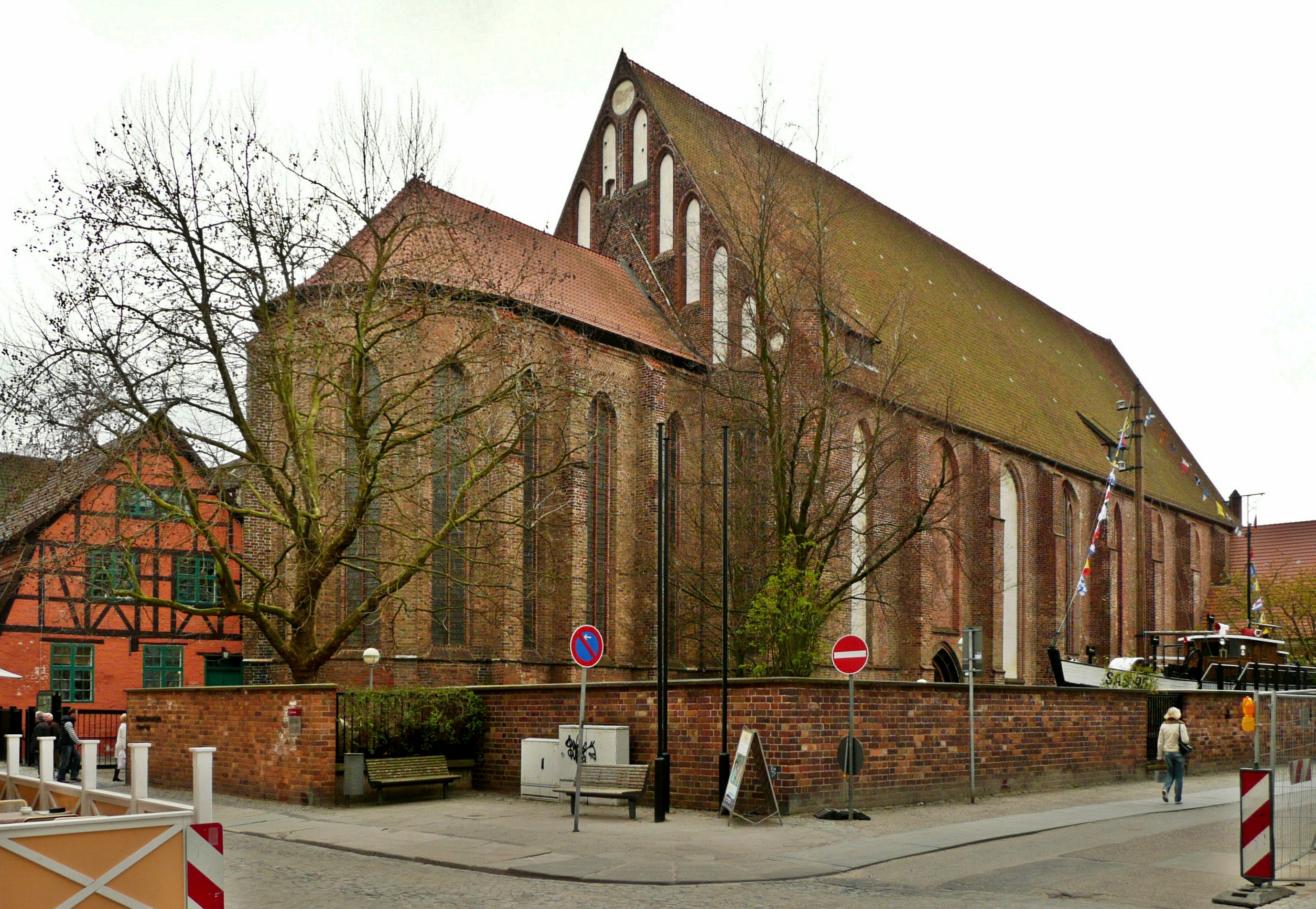 Stralsund: sea museum.